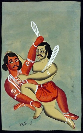 Bhima fighting Duryodhana